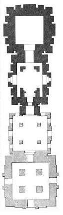 Lingaraj temple map